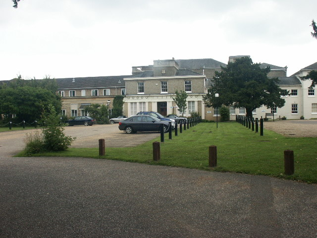 Keswick Hall. The hall was a teacher training college for many years and is still marked "Coll" on the OS maps. However, the training activities have moved to the nearby University of East Anglia, and a variety of commercial and residential uses now occupy the site. The complex was cut off to the SW by the construction of the A47 Norwich Southern Bypass.